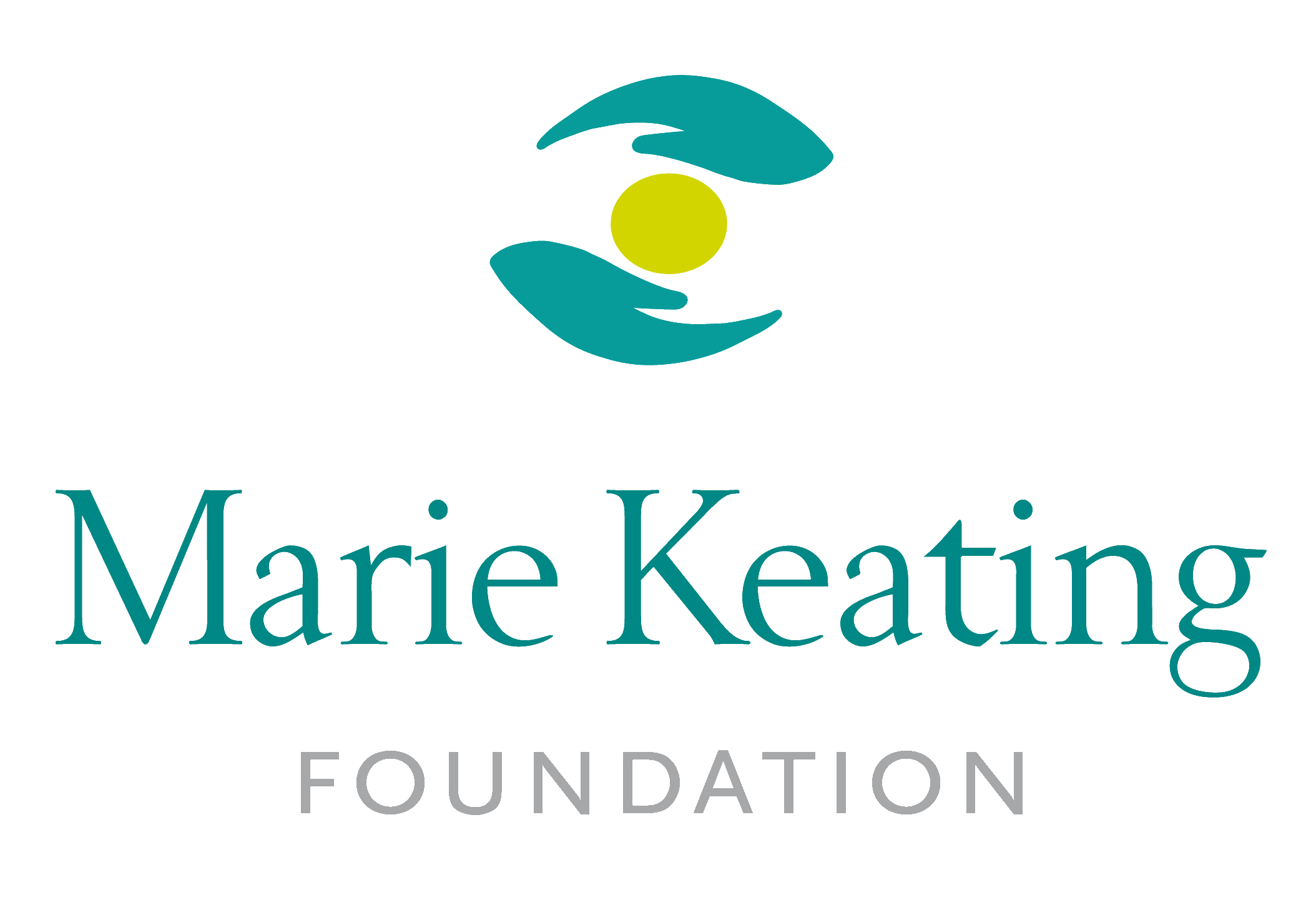 The official logo for the Marie Keating Foundation, an Irish charity fighting breast cancer set up in 2001.